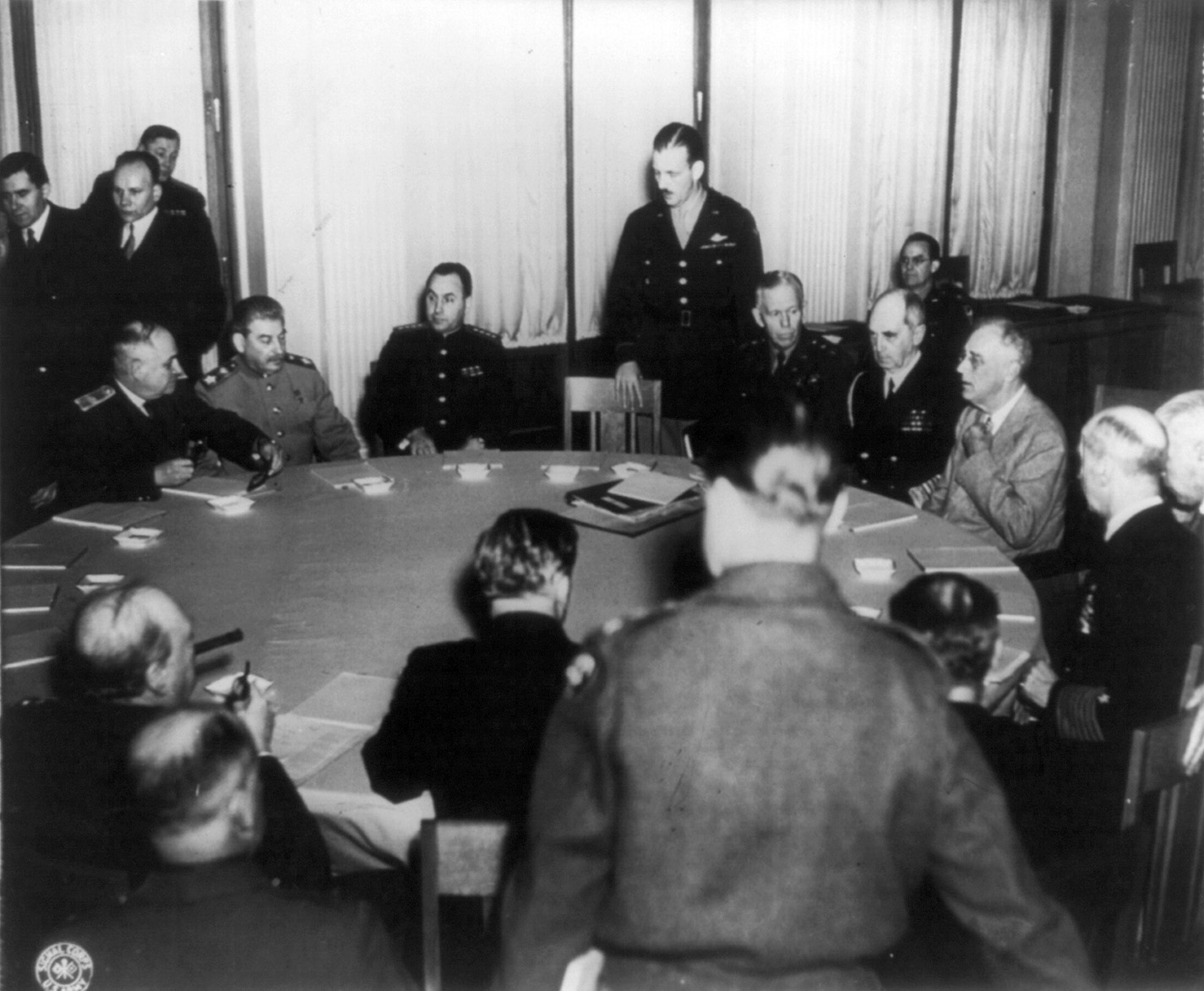 The "Big Three" meeting at the Yalta Conference. Stalin on left, Roosevelt on right. Churchill has his back to the camera and is on the left, with a cigar in his mouth.